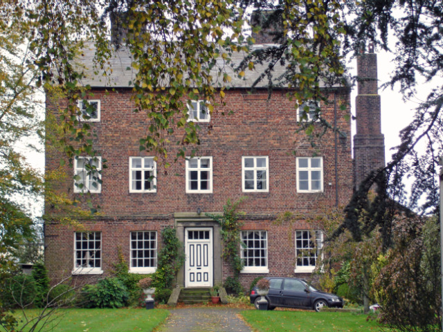 Checkley - Checkley Hall Checkley: Checkley Hall on Checkley Lane.